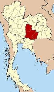 Map of Thailand highlighting the extent of the Roman Catholic diocese of Nakhon Ratchasima.